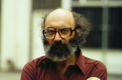 Photograph